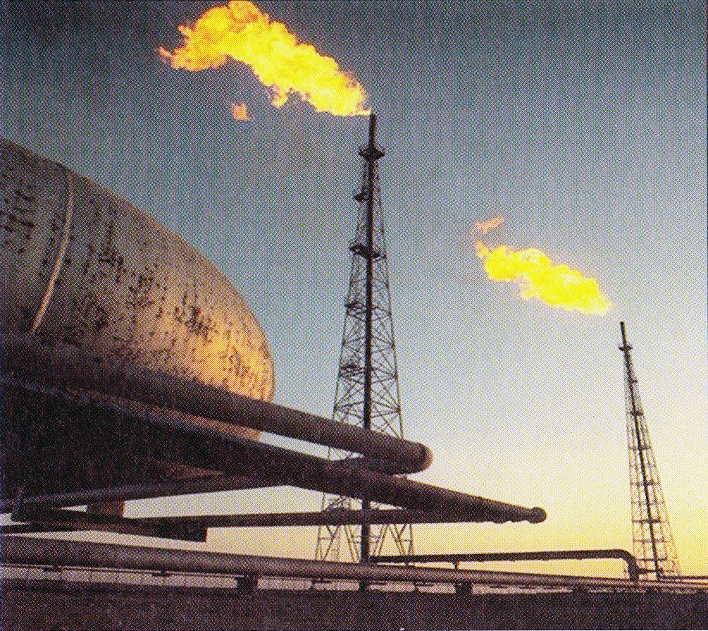 Rafinerie Abadan, 1970